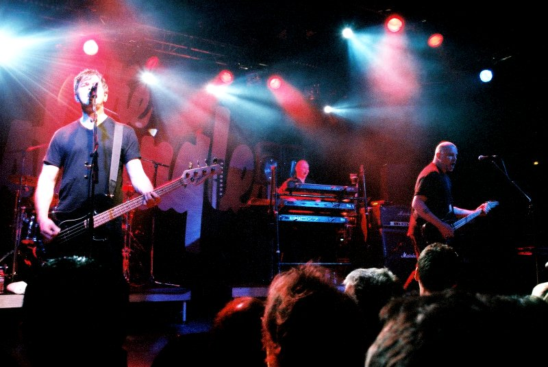 The Stranglers @ Big Band Cafe - Herouville-Saint-Clair